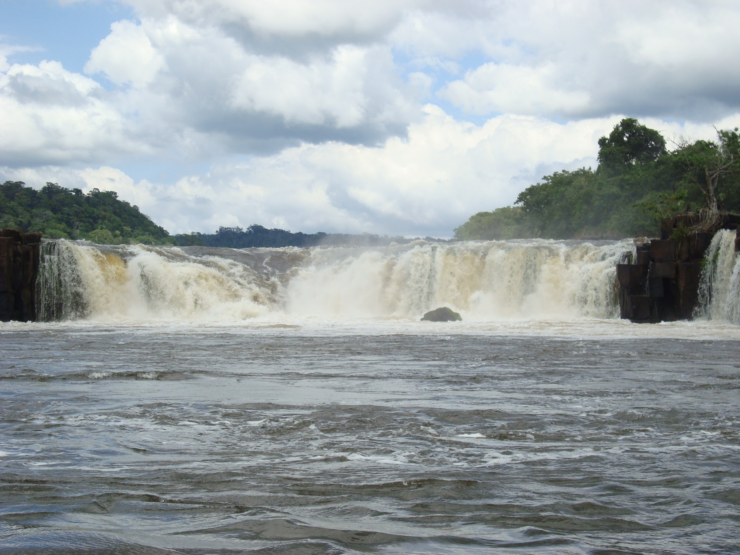 Panama waterfall, Paru River, Almeirim, Pará, Brazil